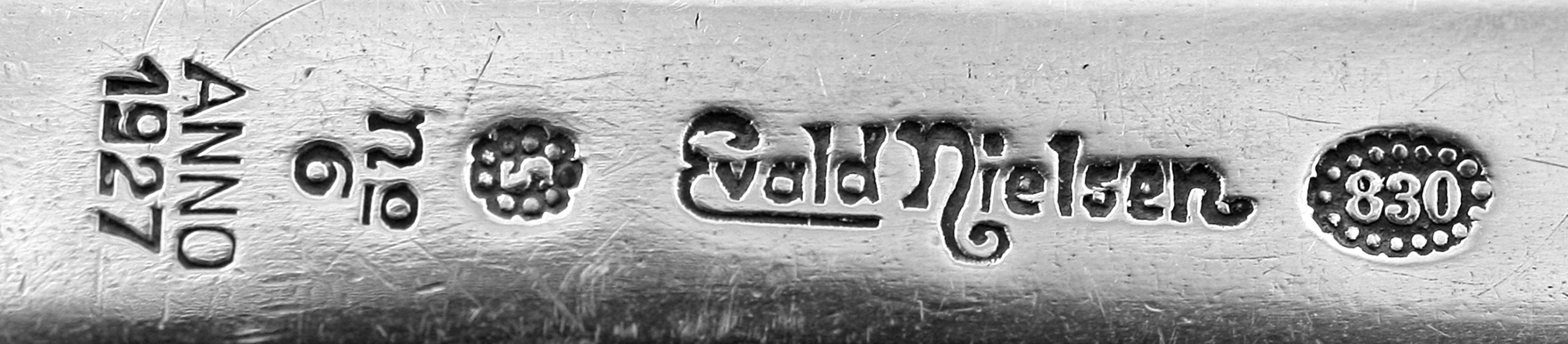 Hallmark of the Danish silversmith Evald Nielsen